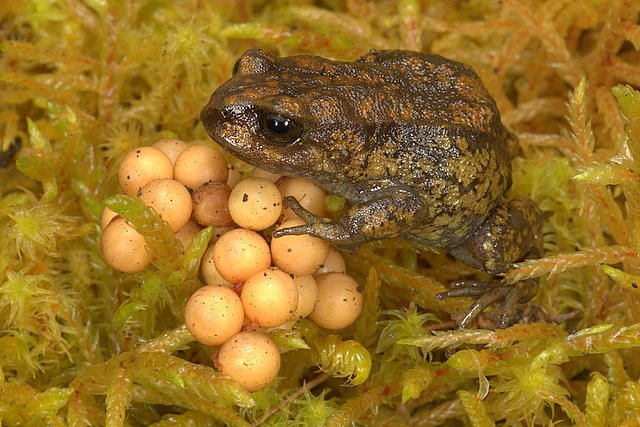 Bryophryne cophites